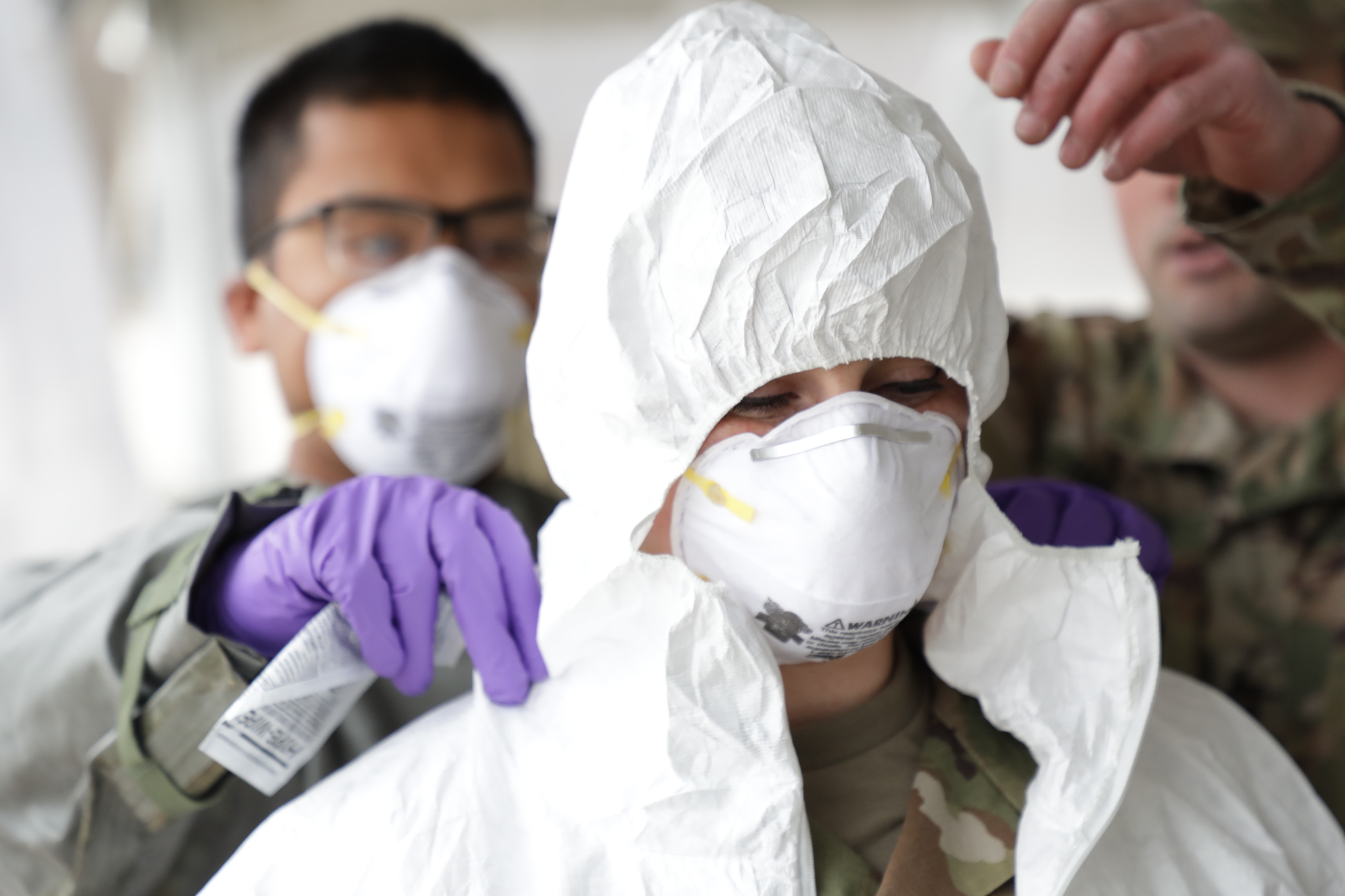 Sgt. Cora Brown of the 861st Engineering Company, donned in protective gear, trains to administer COVID-19 tests to the public. These tests will be administered to people in the state of Rhode Island who have been referred by their primary care providers. On Monday March 30, 2020, Soldiers from the Rhode Island National Guard began setting up a testing station at Community College of Rhode Island, Warwick. Soldiers and Airmen of the Rhode Island National Guard have been activated by Governor Gina Raimondo to support this historic fight against COVID-19. (Air National Guard photo by Staff Sgt. John Vannucci)